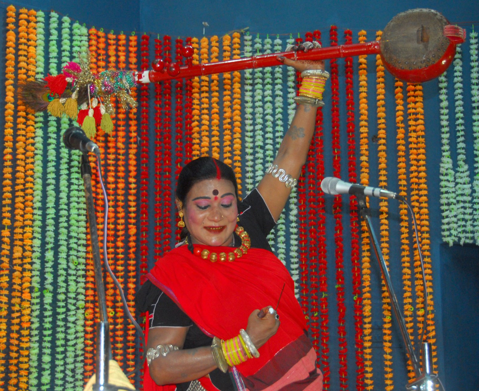 Teejanbai- Folk performer from India